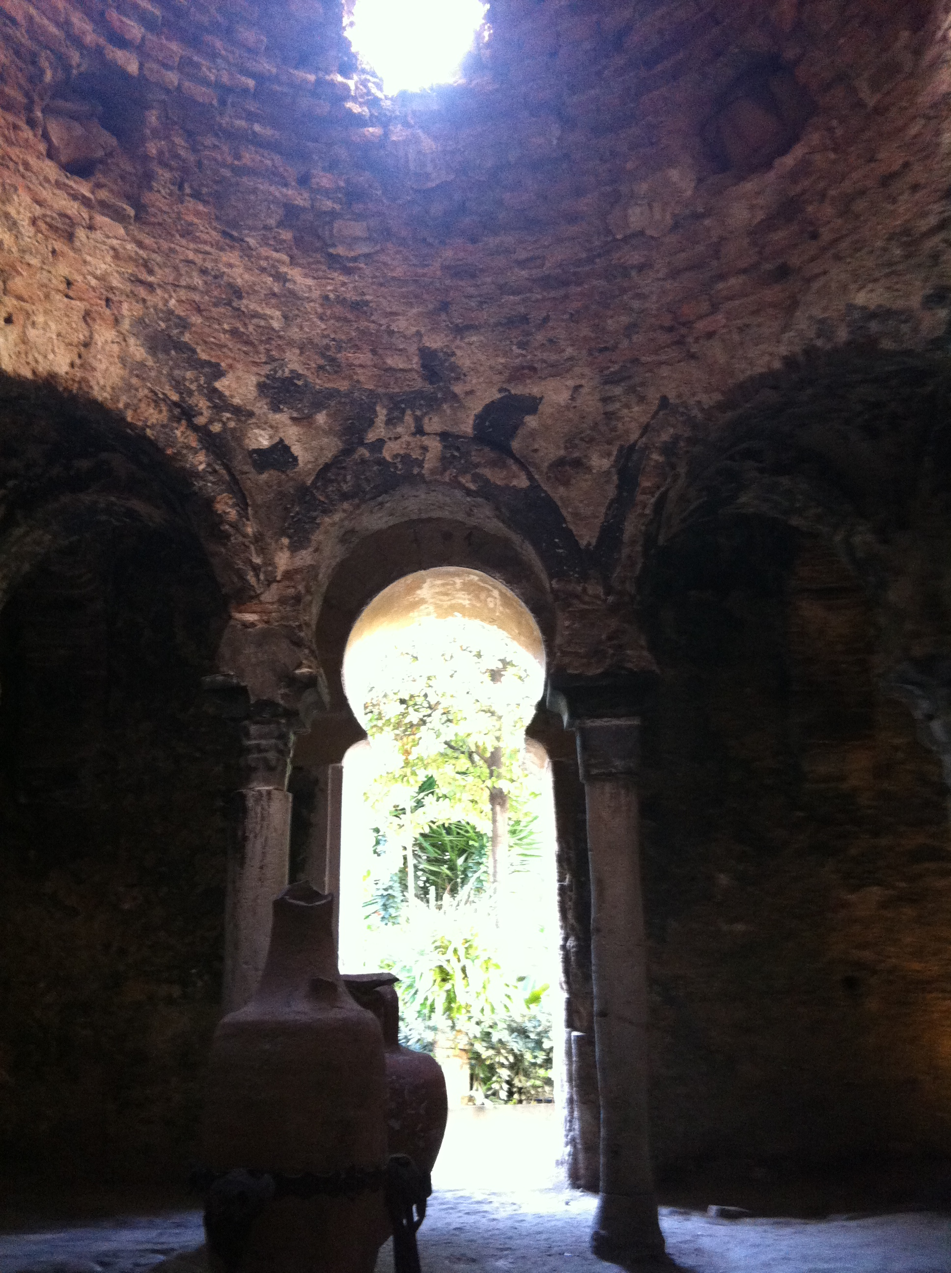 Arabian baths in Palma